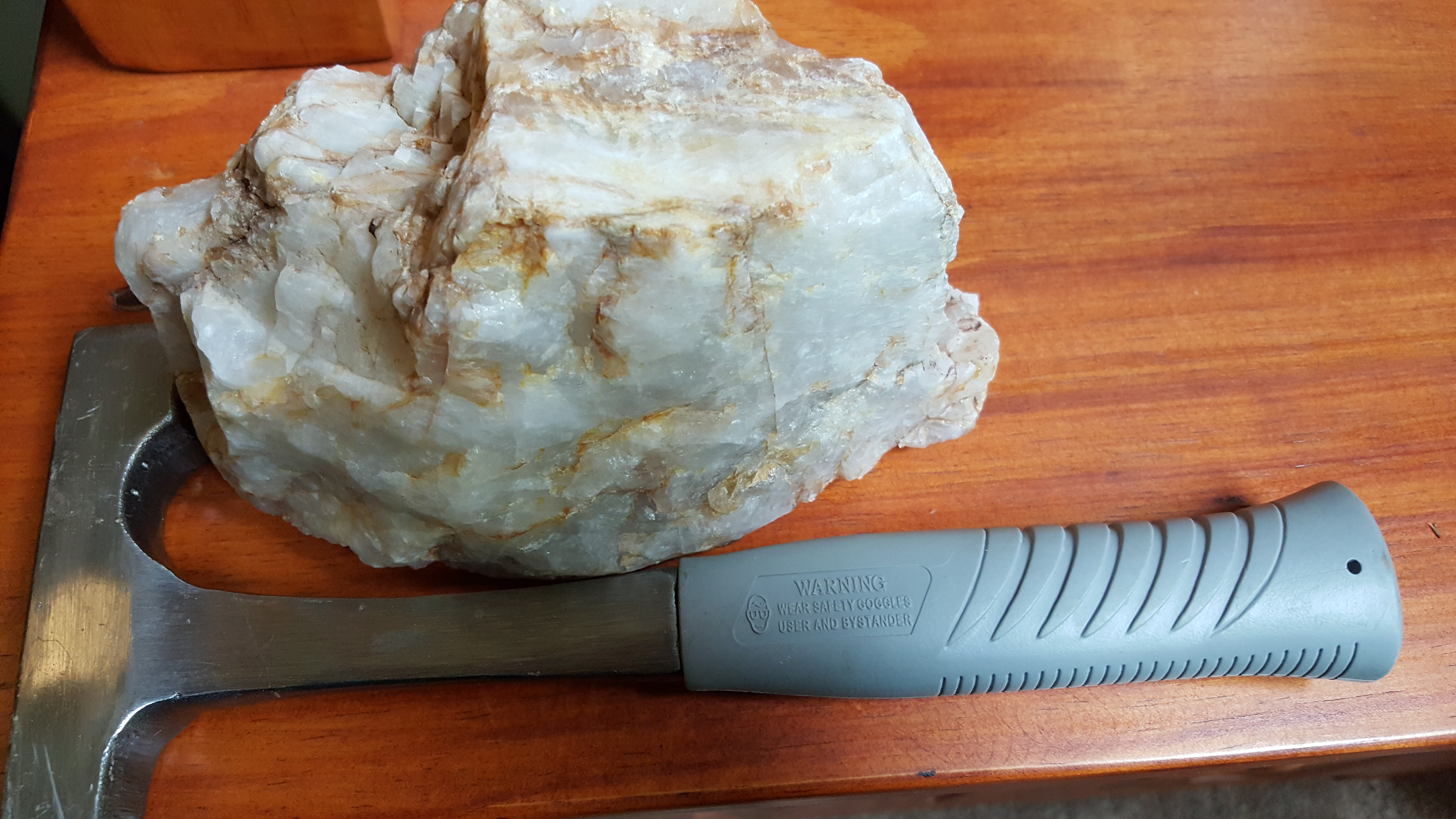 White quartz boulder fragment dated approx. 704 Ma +/- 5 Ma. Battle Mountain, Rappahannock County, Virginia. Rock hammer for scale.